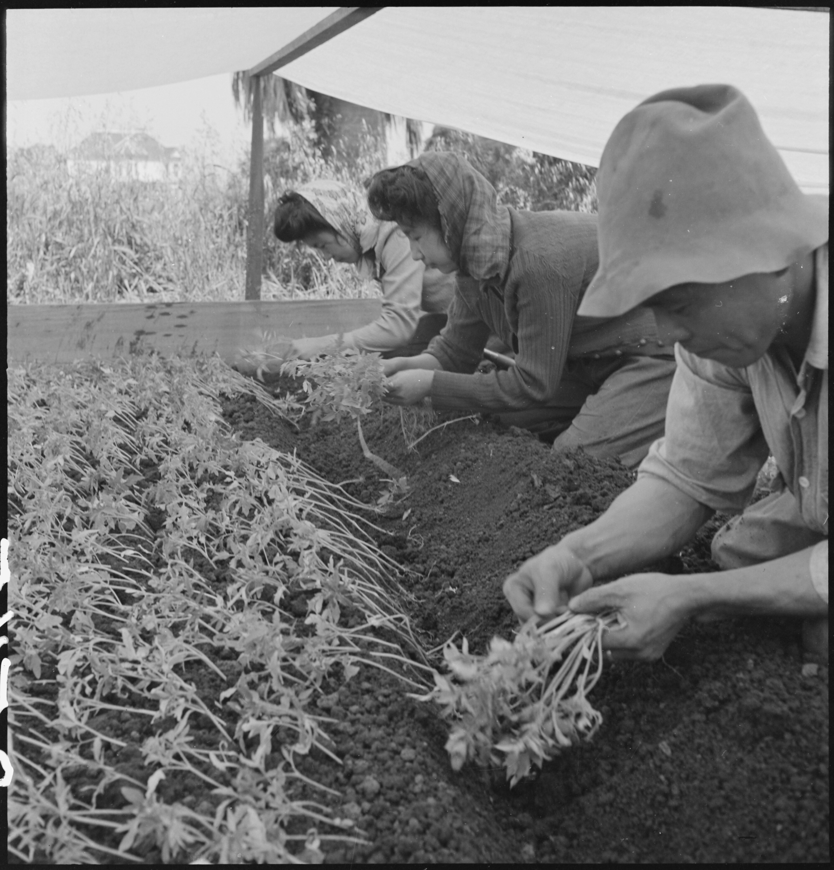 Scope and content: The full caption for this photograph reads: San Leandro, California. Family labor transplanting young tomato plants under canvas about ten days prior to evacuation of residents of Japanese ancestry to Assembly Centers.